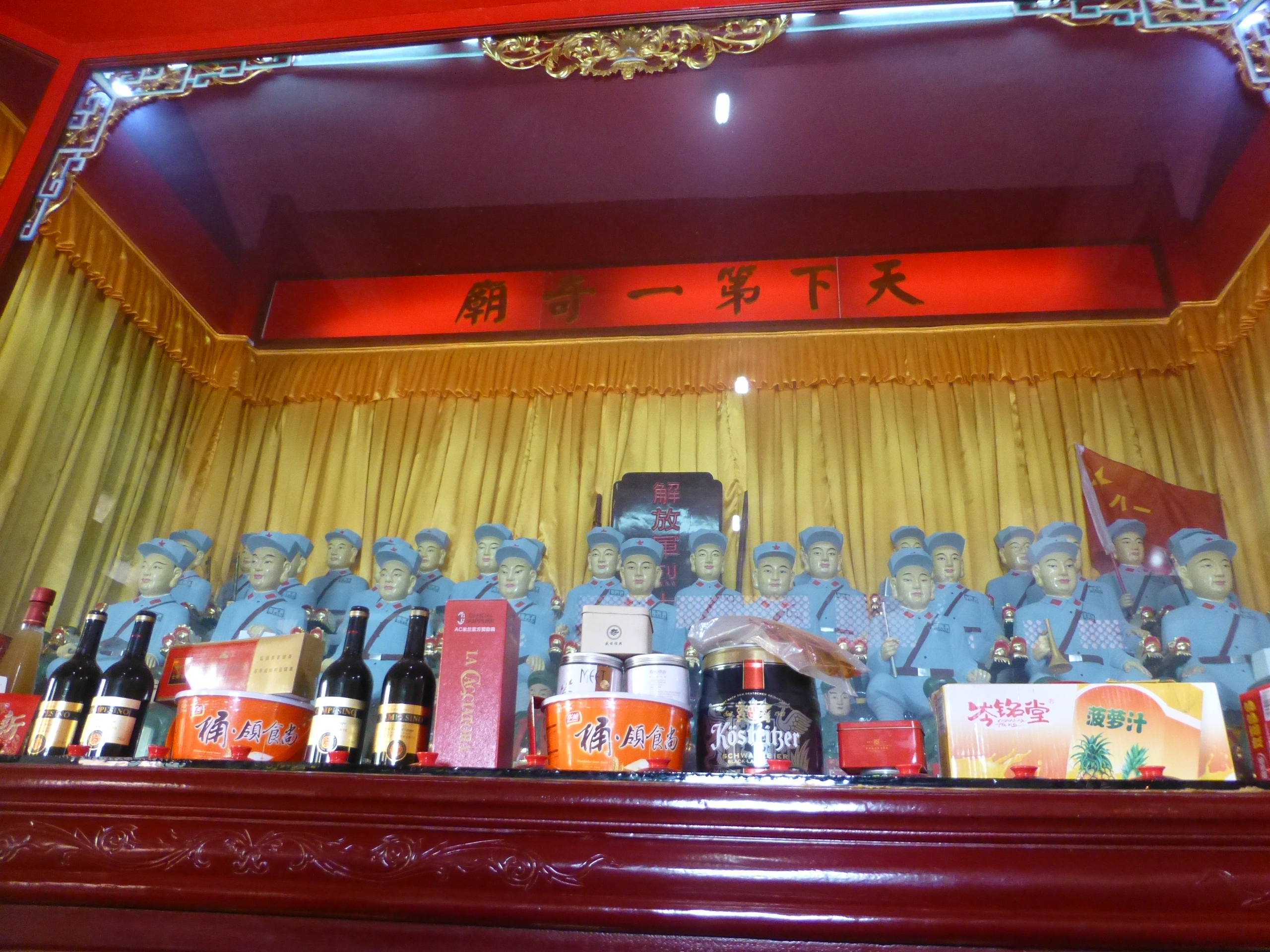 The 27 heroes enshrined in the temple's sanctuary